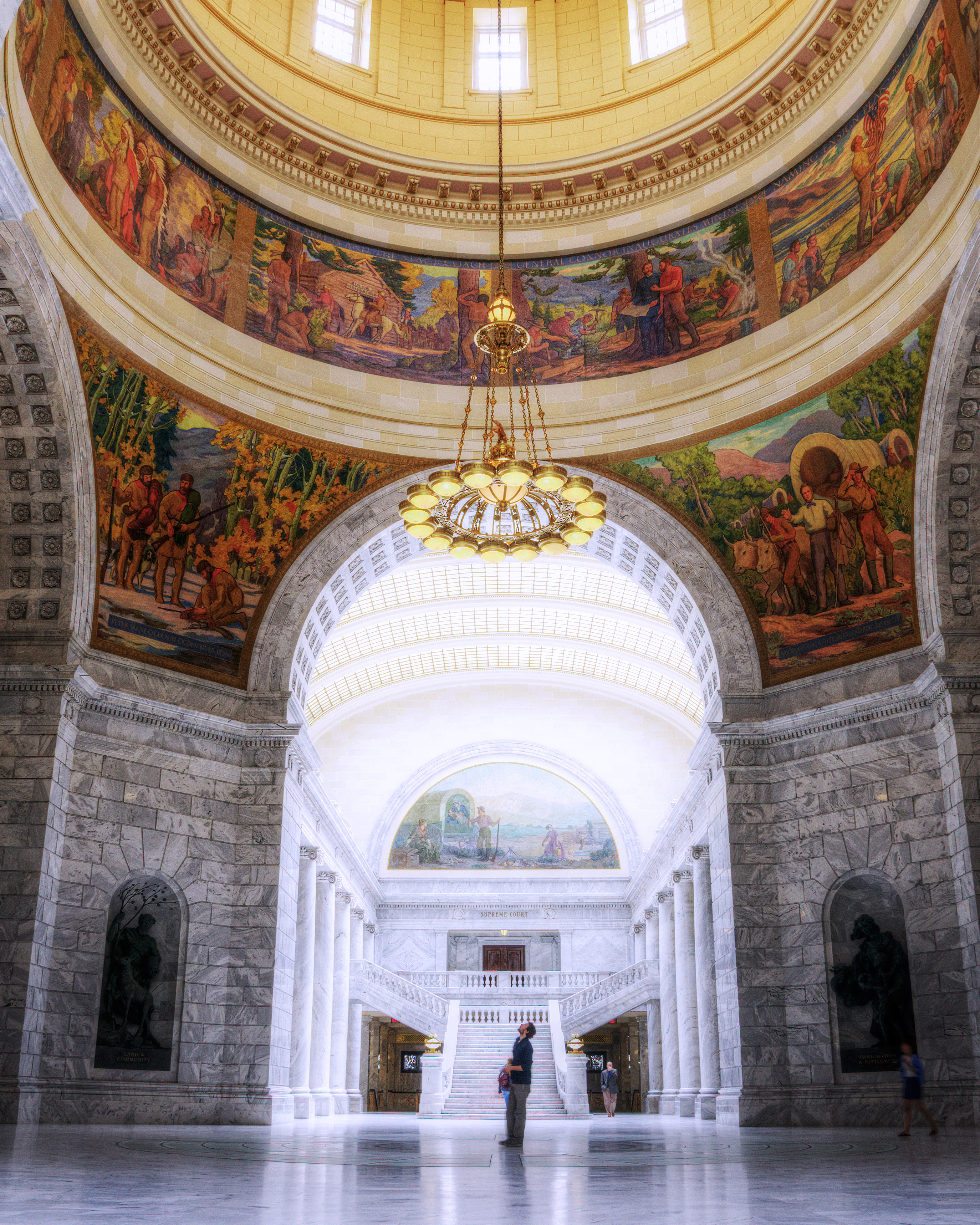 The Rotunda of Utah State Capitol 05/29/2010, the beautiful rotunda of Utah State Capitol in Salt Lake City. As is always the case with American stuffs, huuuuuge. I dropped by this city during a road trip and that was the cleanest city I had ever visited in the USA. In my opinion. Just my opinion. The paintings in the rotunda are based on the history of Utah. Detail